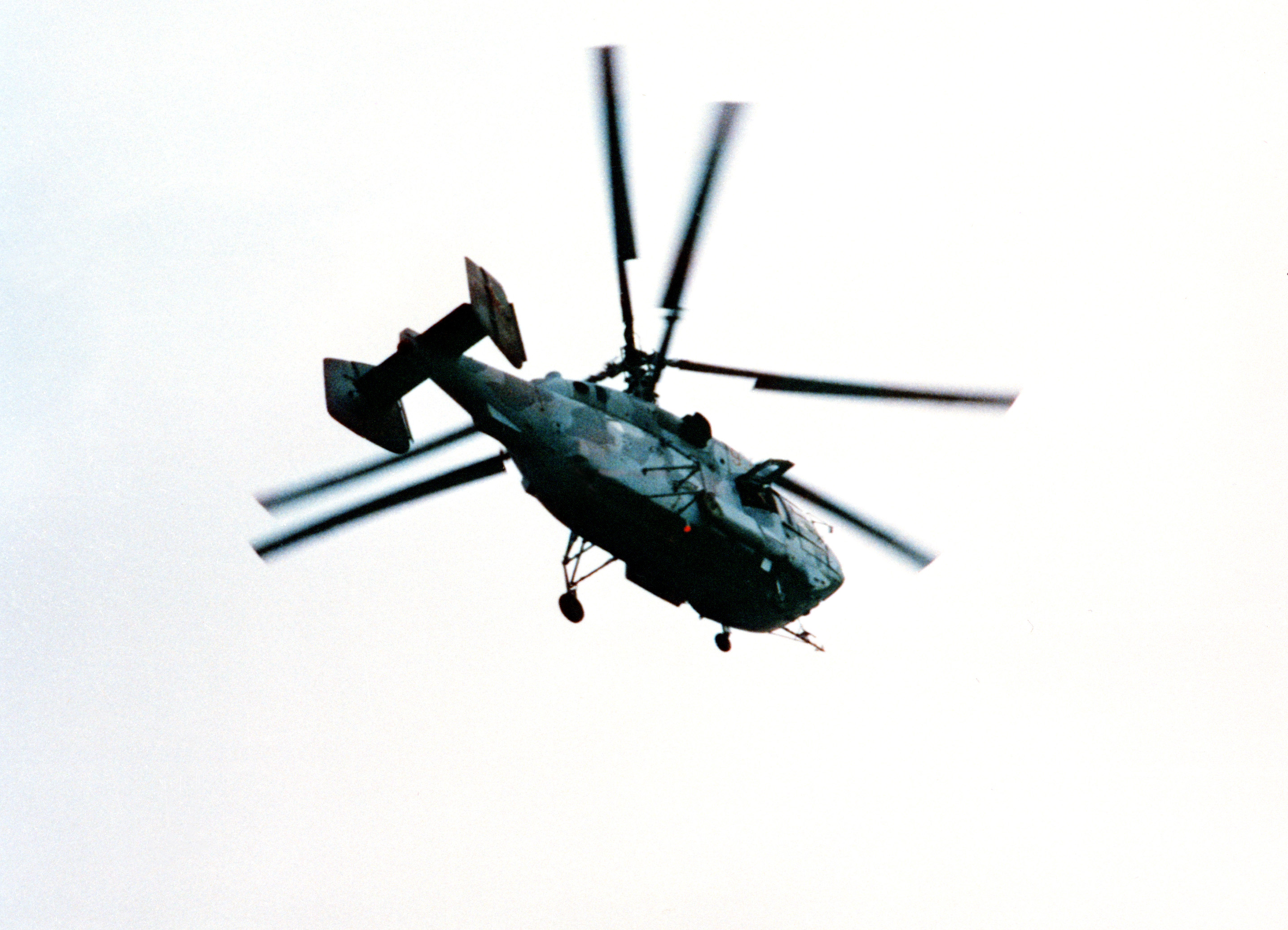 Kamov Ka-29 assault transport helicopter in flight (Vladivostok, USSR, 1990)